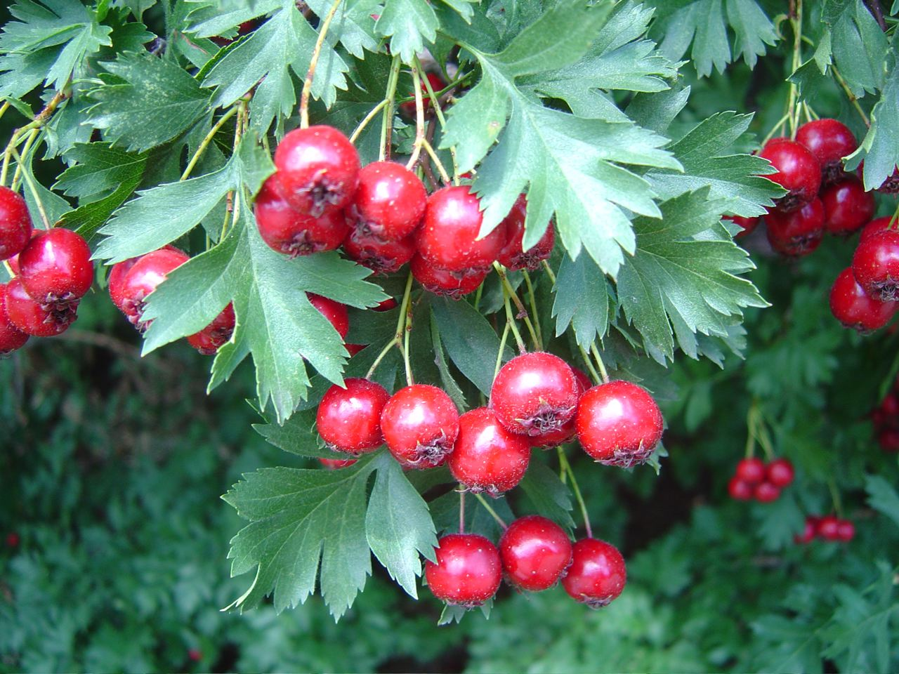 Crataegus ambigua fruits.